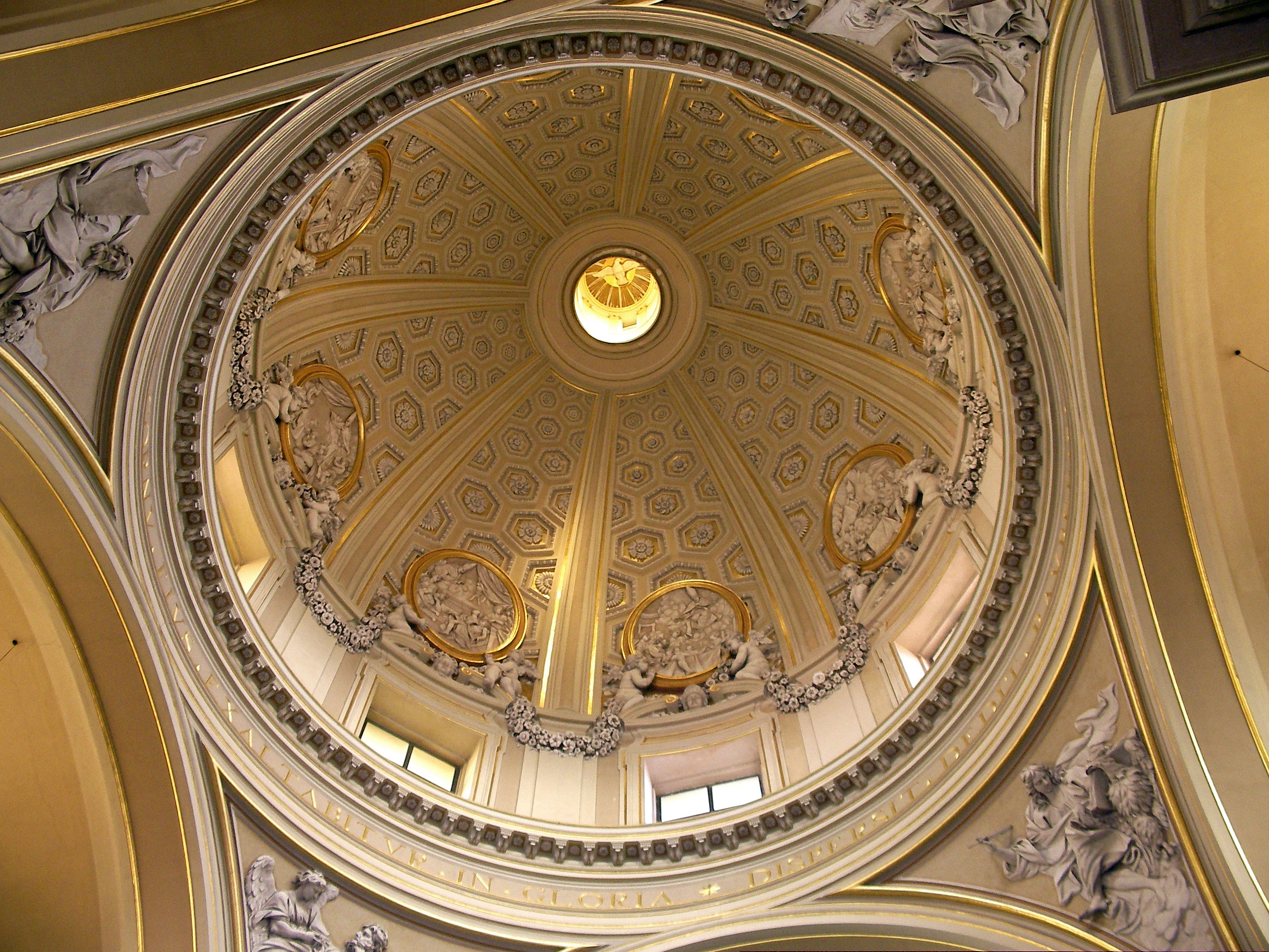 Cupola of Bernini's Parish Church in Castelgandolfo, Italy